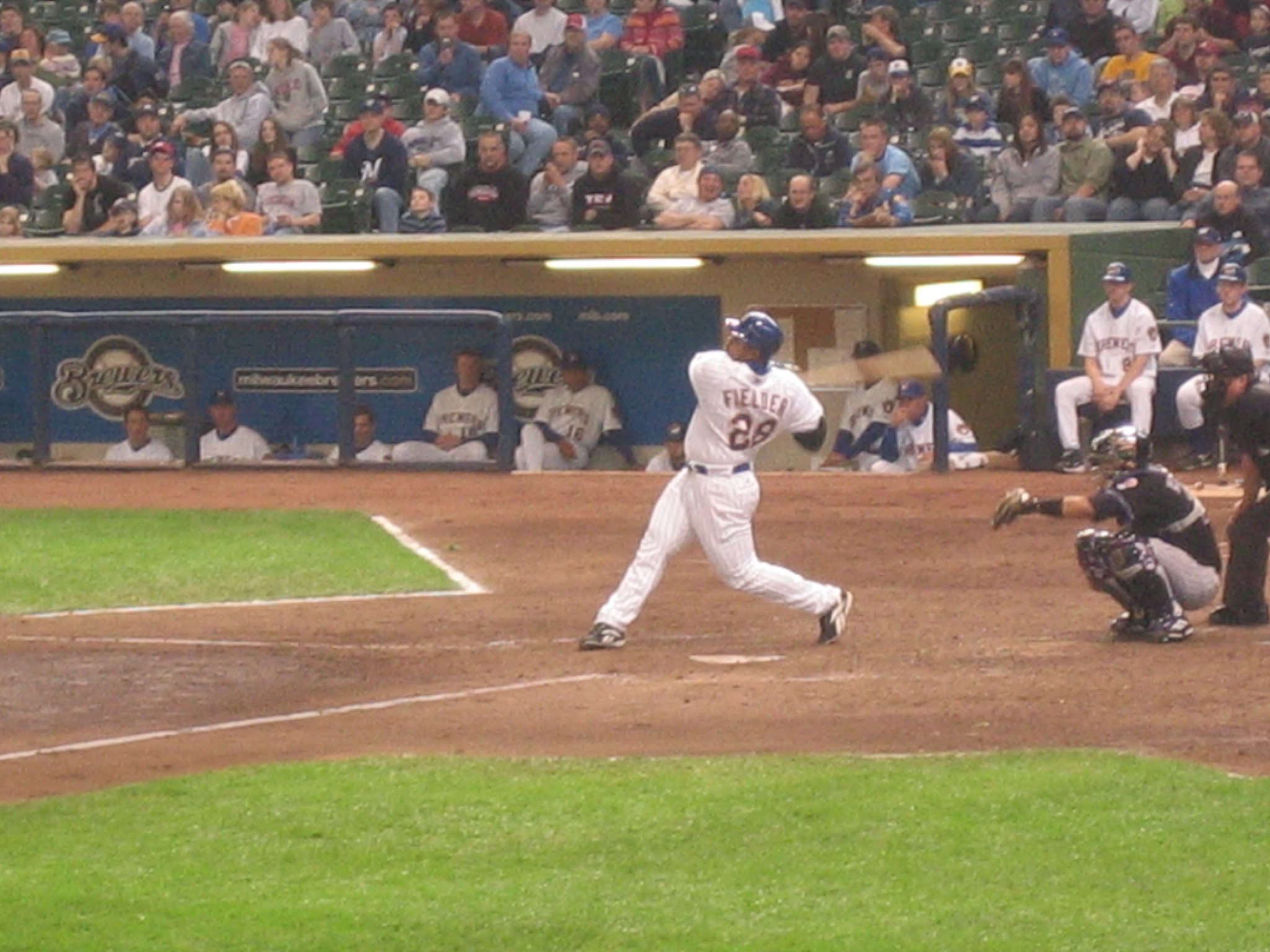 Prince Fielder and the Brewers in their first appearance in the retro uniforms.